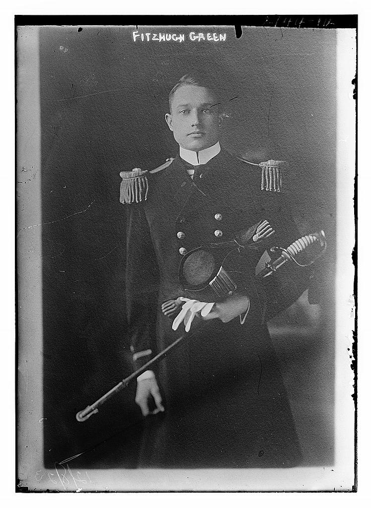 Bain News Service,, publisher. Fitzhugh Green [no date recorded on caption card] 1 negative : glass ; 5 x 7 in. or smaller. Notes: Title from unverified data provided by the Bain News Service on the negatives or caption cards. Forms part of: George Grantham Bain Collection (Library of Congress). Format: Glass negatives. Repository: Library of Congress, Prints and Photographs Division, Washington, D.C. 20540 USA, General information about the Bain Collection is available at Persistent URL: Call Number: LC-B2- 2744-14